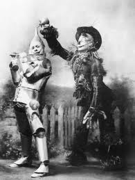 Fred Stone (right) and David C. Montgomery (left) in The Wizard of Oz (1903)